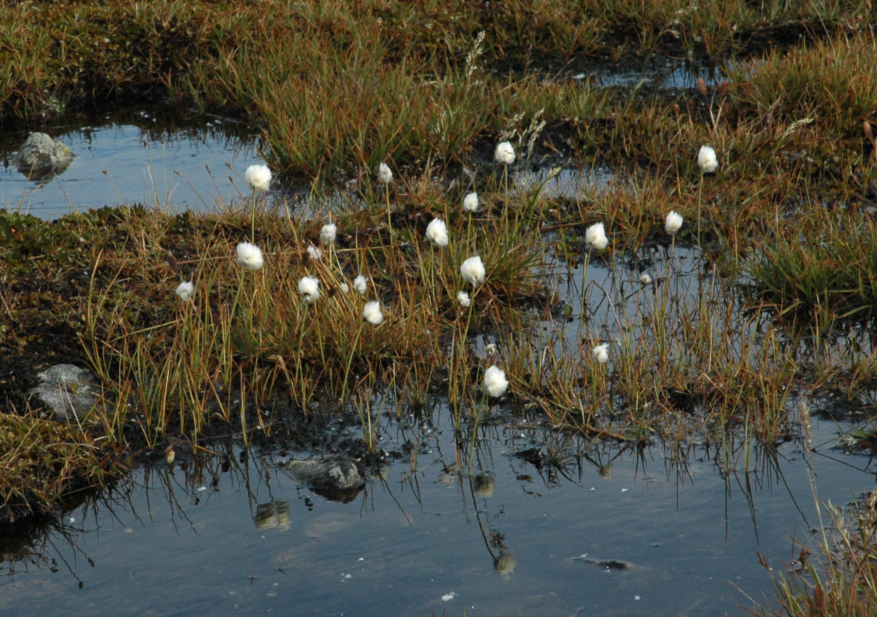 Snøull (Eriophorum scheuchzeri Hoppe), halvgrasfamilien (Cyperaceae), These plants were found at Valdresflya, Norway at aprox. 1400 metres above sea level, september 2005.